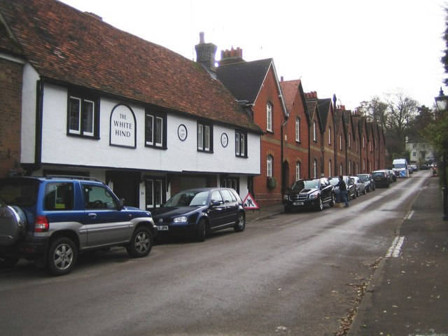 Wadesmill: Ermine Street Ermine Street is an old Roman road. Normally these are very straight but occasionally, as here, the straightness principle was abandoned in order to overcome some particular geographical obstacle, probably in this case the crossing of the River Rib. There is an interesting historical name change going on in this village too. If you look at old Ordnance Survey 6" to the mile maps the whole settlement along Ermine Street on either side of the River Rib was shown as Wadesmill, while Thundridge was the name of the much larger parish centred on the church 117556 at the top of the hill at the southern end of the village. Certainly this naming arrangement was recorded as recently as the map edition of 1950, where the word Thundridge can only be found by zooming out of the mapping to show the whole parish. However all the current editions of the OS mapping now refer to Thundridge as the settlement on the south side of the river while Wadesmill has migrated so that it now only covers the village on the north side. There is too a howler in the current OS 1:25,000 scale mapping which refers to Thundridge as Thunderidge.